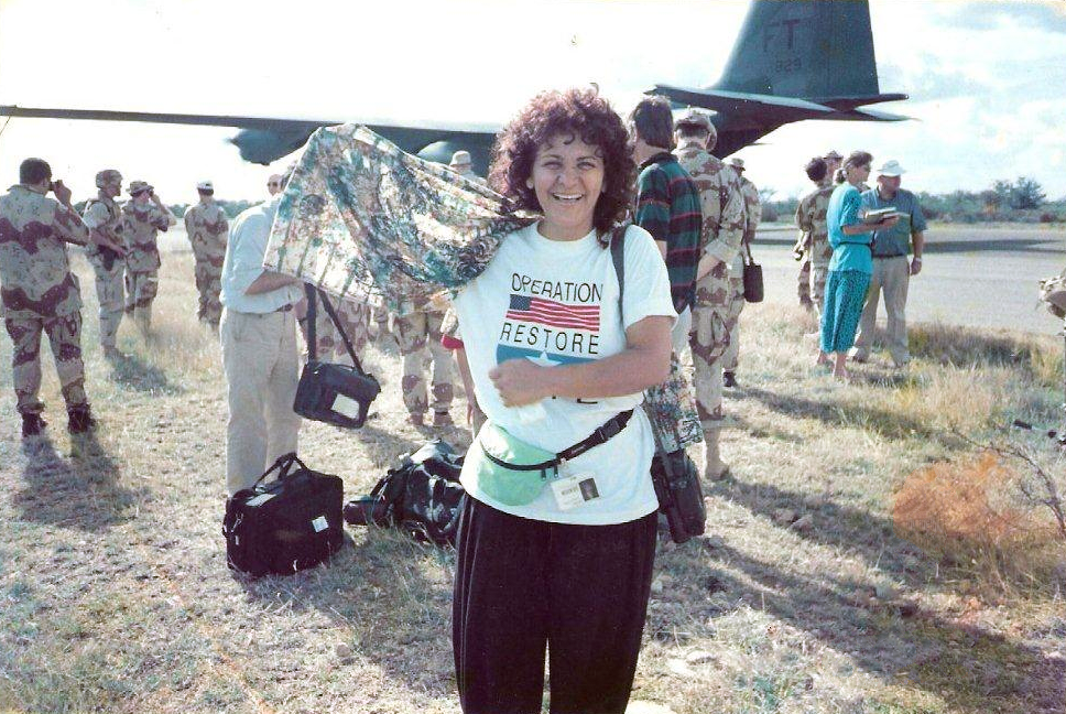 Haifa Israel USO Director Gilla Gerzon arrives in Somalia December 1992 to set up temporary "USO Somalia" for U.S. troops engaged in Operation Restore Hope